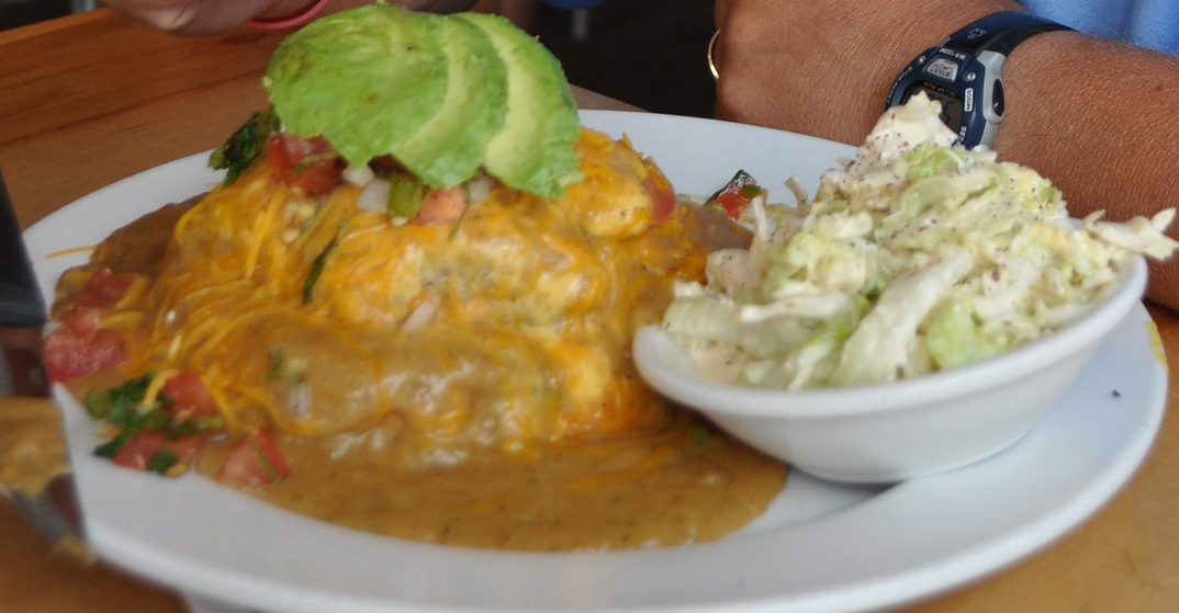 Picture of a slopper cropped from Flickr